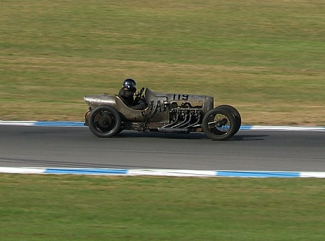 Richard Scaldwell's JAP-engined GN Grand Prix special at the VSCC SeeRed race meeting, Donington Park, September 2007. The GN has a 5.1 litre V8 aero-engine shoehorned into its lightweight cyclecar frame.